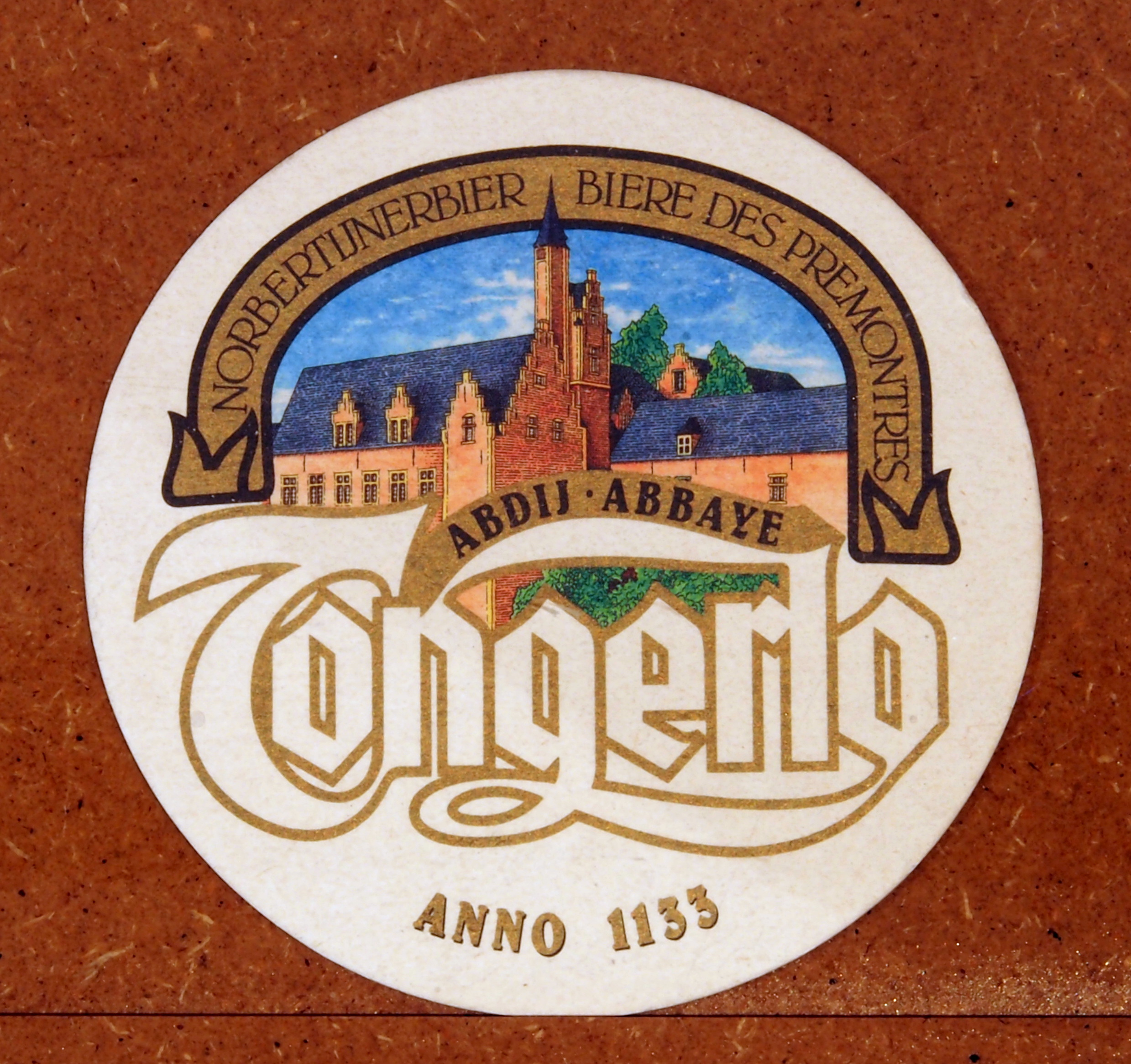 Tongerlo bier. (Photographed through glass.)